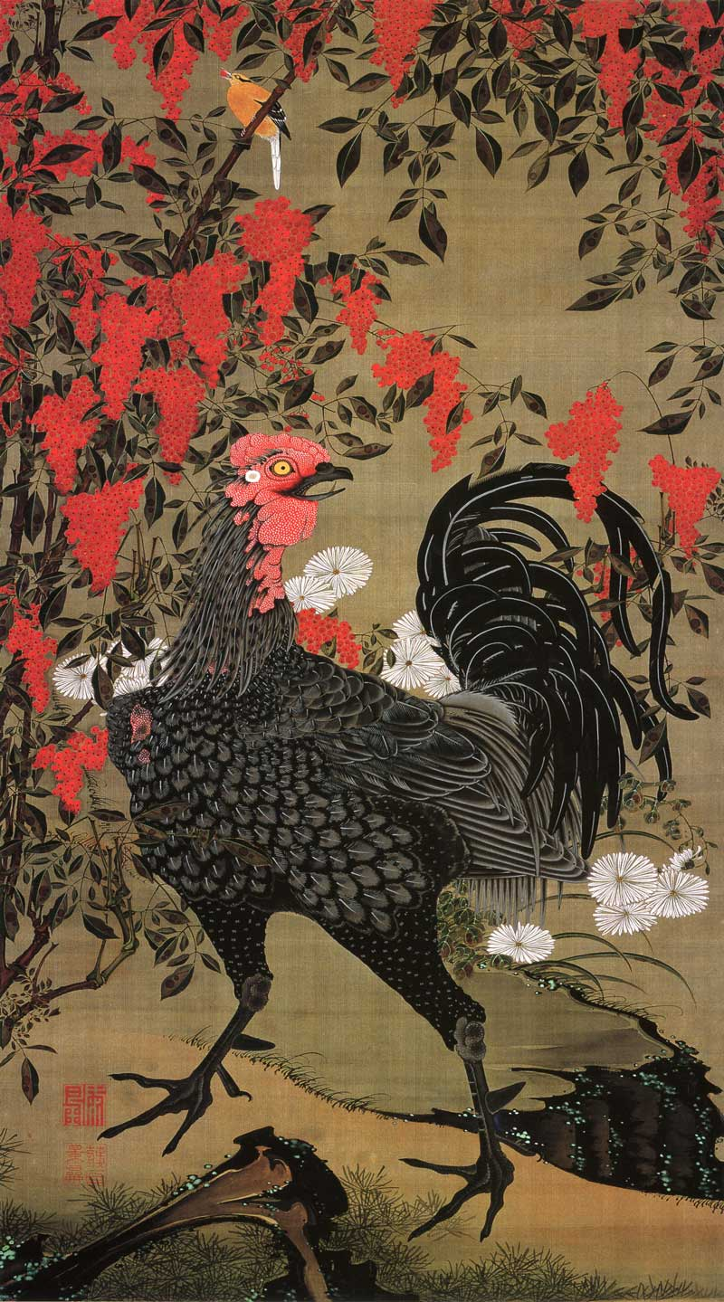 Rooster by Ito